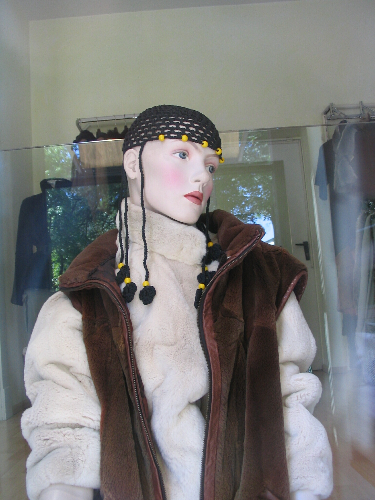 Furrier Norbert Koster in Haan, Germany